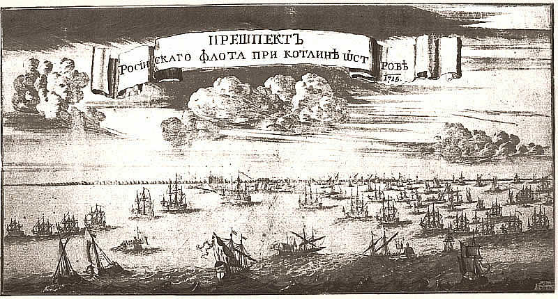 Russian fleet about Kotlin island